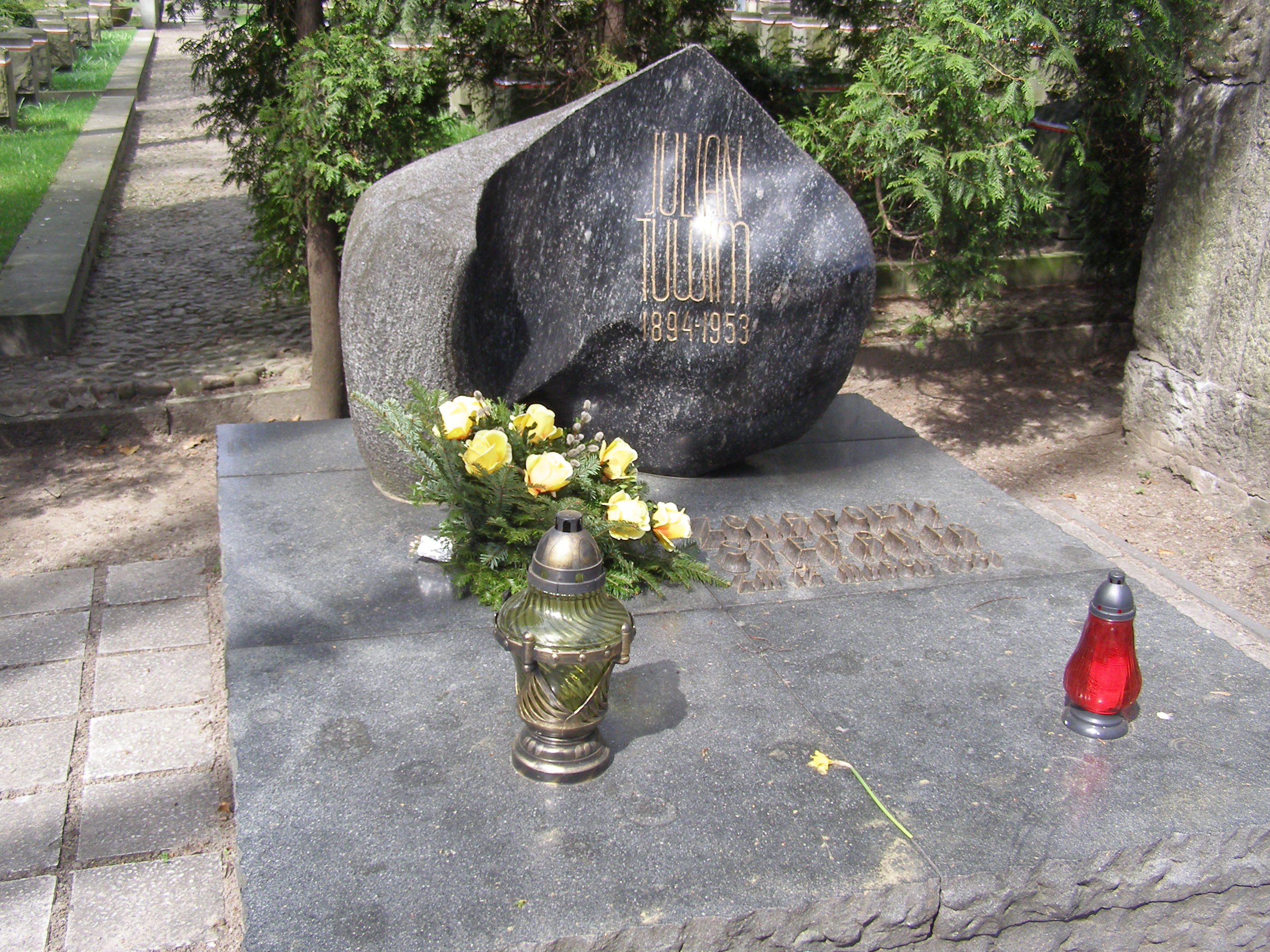 Gravestone of Julian Tuwim and his wife Stefania, Military Cemetary in Warsaw